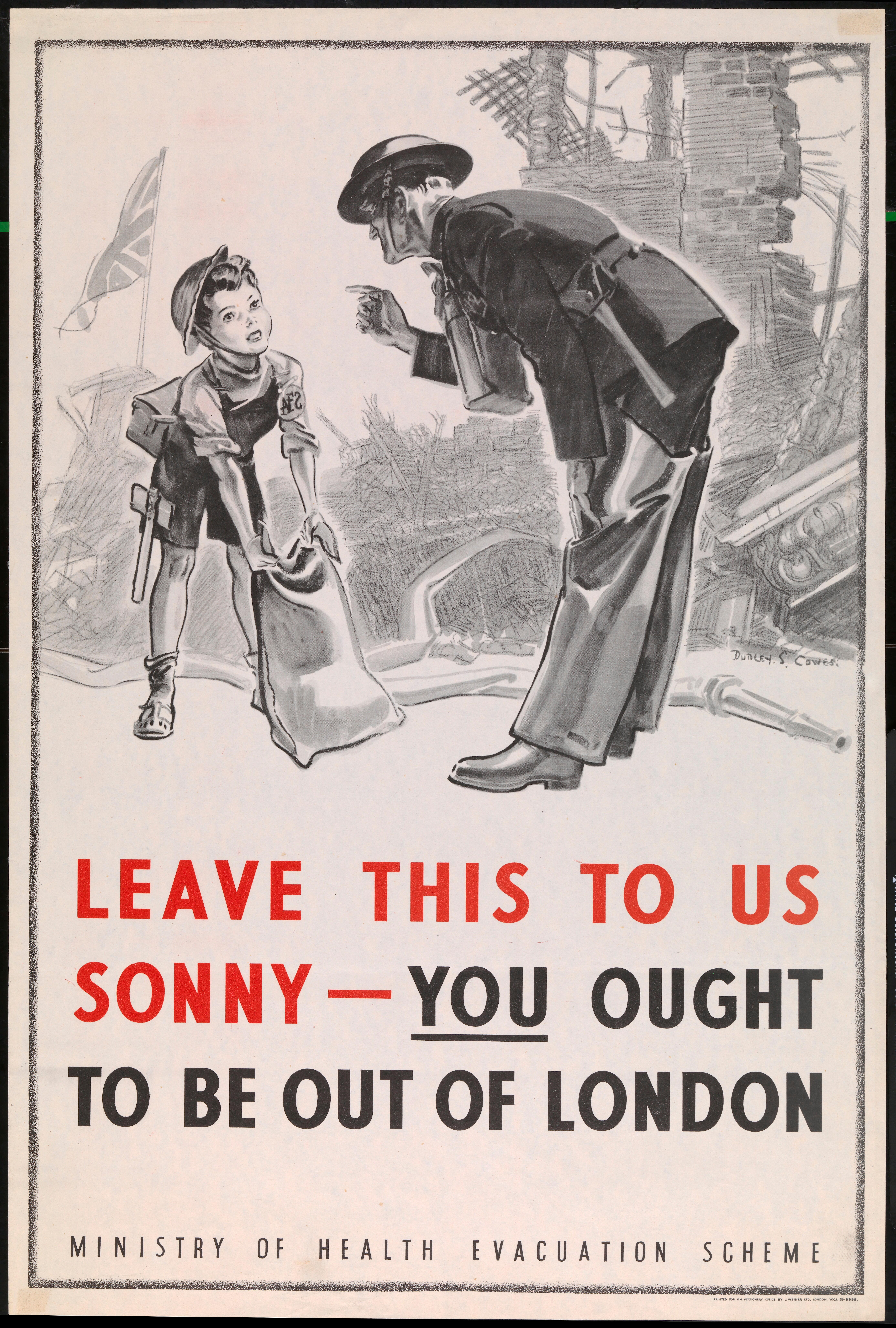 Leave this to Us Sonny whole: the image is positioned in the upper two-thirds. The title and text are separate and placed in the lower third, in red and in black. All held within a black border and set against a white background. image: a full-length depiction of a young boy pretending to be an AFS firefighter. He wears a home-made AFS badge and attempts to lift a sandbag among the ruins of a bombed house. He is addressed by a real, adult AFS firefighter in uniform. In the background left, a Union Flag flutters atop the rubble. text: AFS DUDLEY. S. COWES. LEAVE THIS TO US SONNY - YOU OUGHT TO BE OUT OF LONDON MINISTRY OF HEALTH EVACUATION SCHEME PRINTED FOR H.M. STATIONERY OFFICE BY J. WEINER LTD., LONDON, W.C.1. 51-9998.